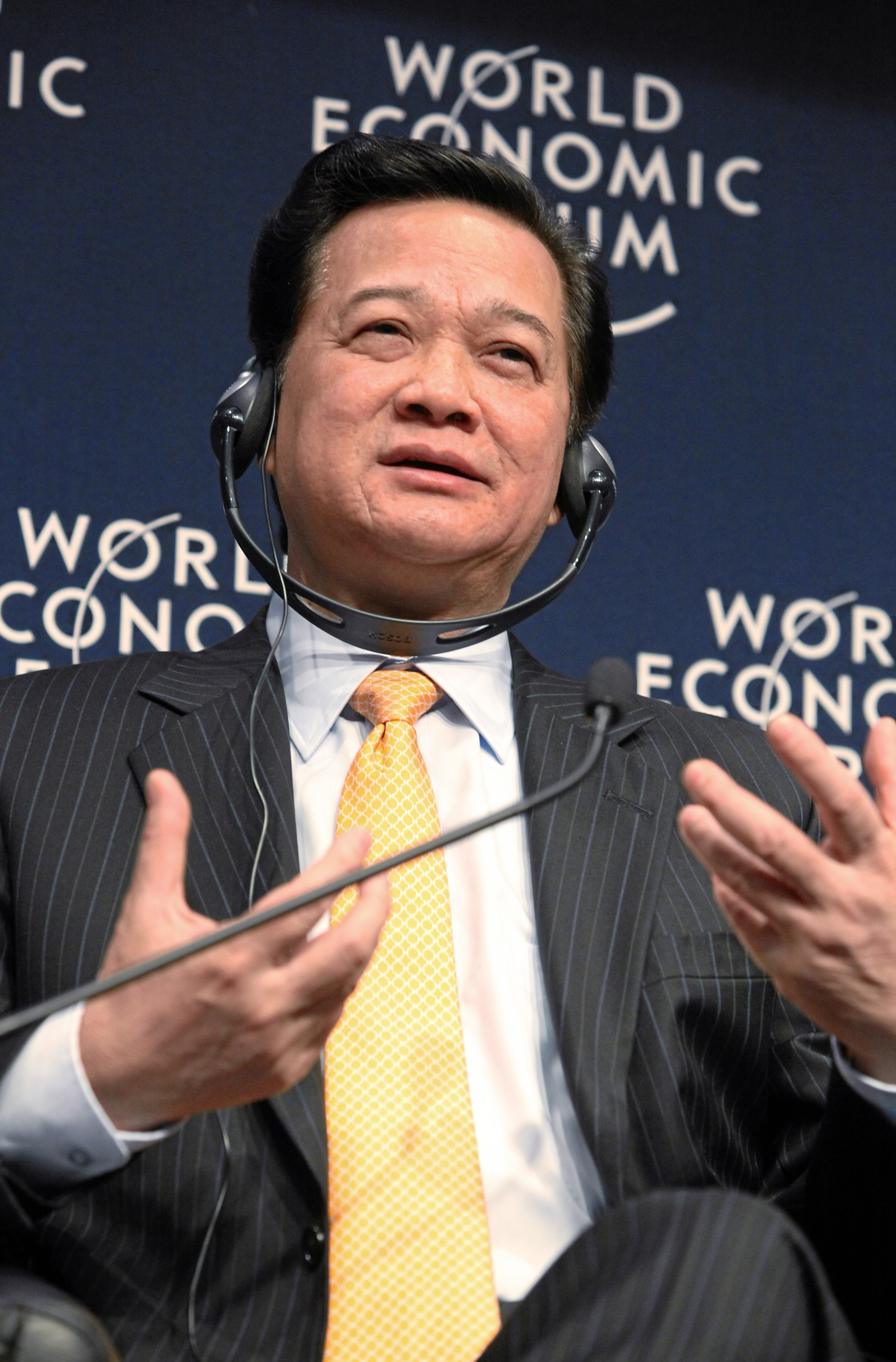 DAVOS/SWITZERLAND, 30JAN10 - Nguyen Tan Dung, Prime Minister of Vietnam; Chair, 2010 ASEAN is captured during the session 'Towards an East Asian Community?' at the Annual Meeting 2010 of the World Economic Forum in Davos, Switzerland, January 30, 2010 in the Congress Centre. Copyright by World Economic Forum by Monika Flueckiger